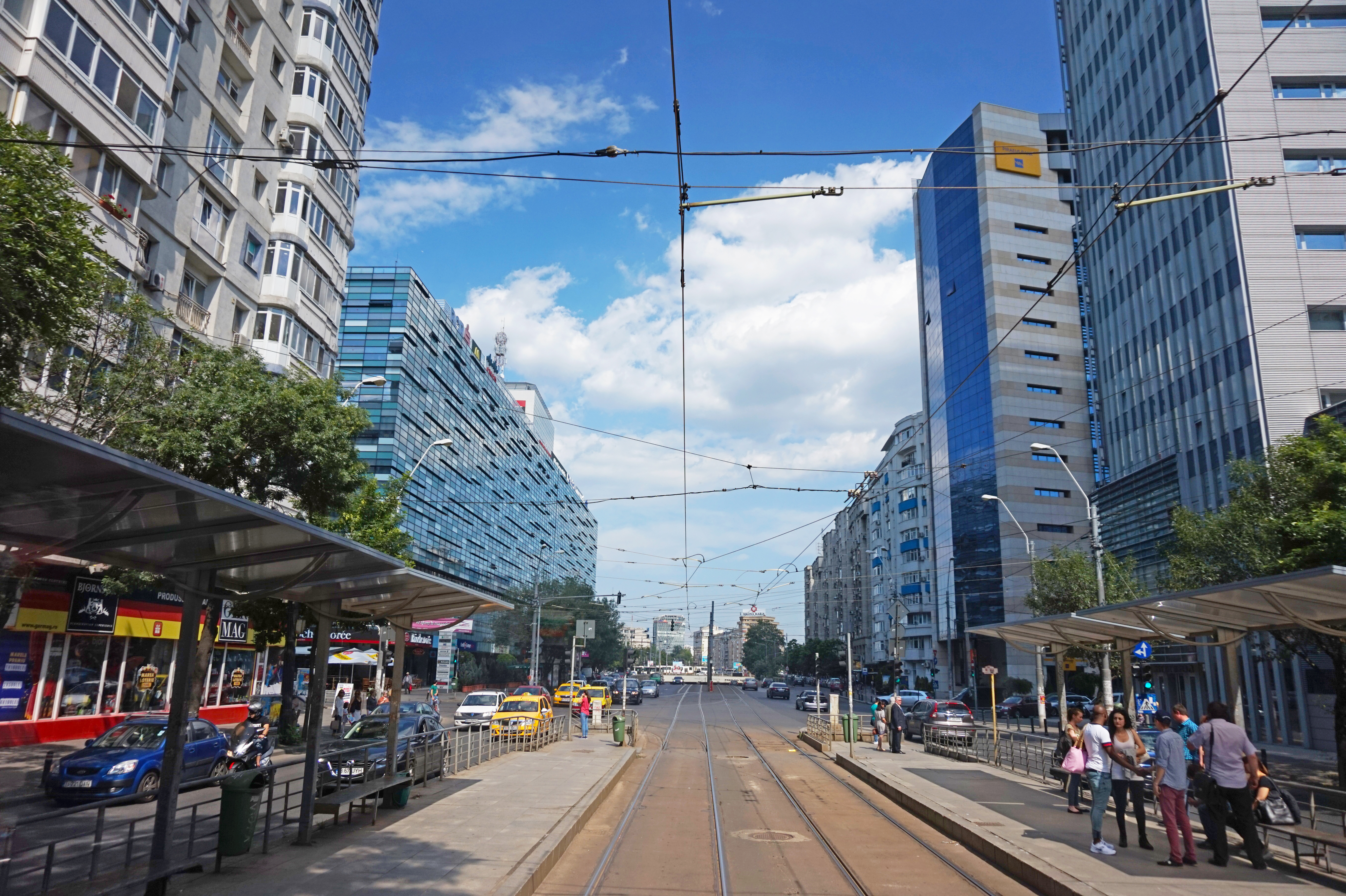 View from the tram stop Dr. Felix on the street Șoseaua Nicolae Titulescu in Bucharest. This photograph was taken with a Sony Alpha a5000.